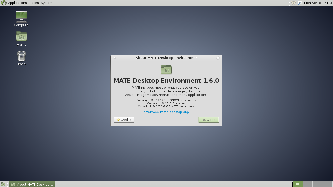 A screenshot of the MATE desktop environment 1.6 running on Debian Wheezy